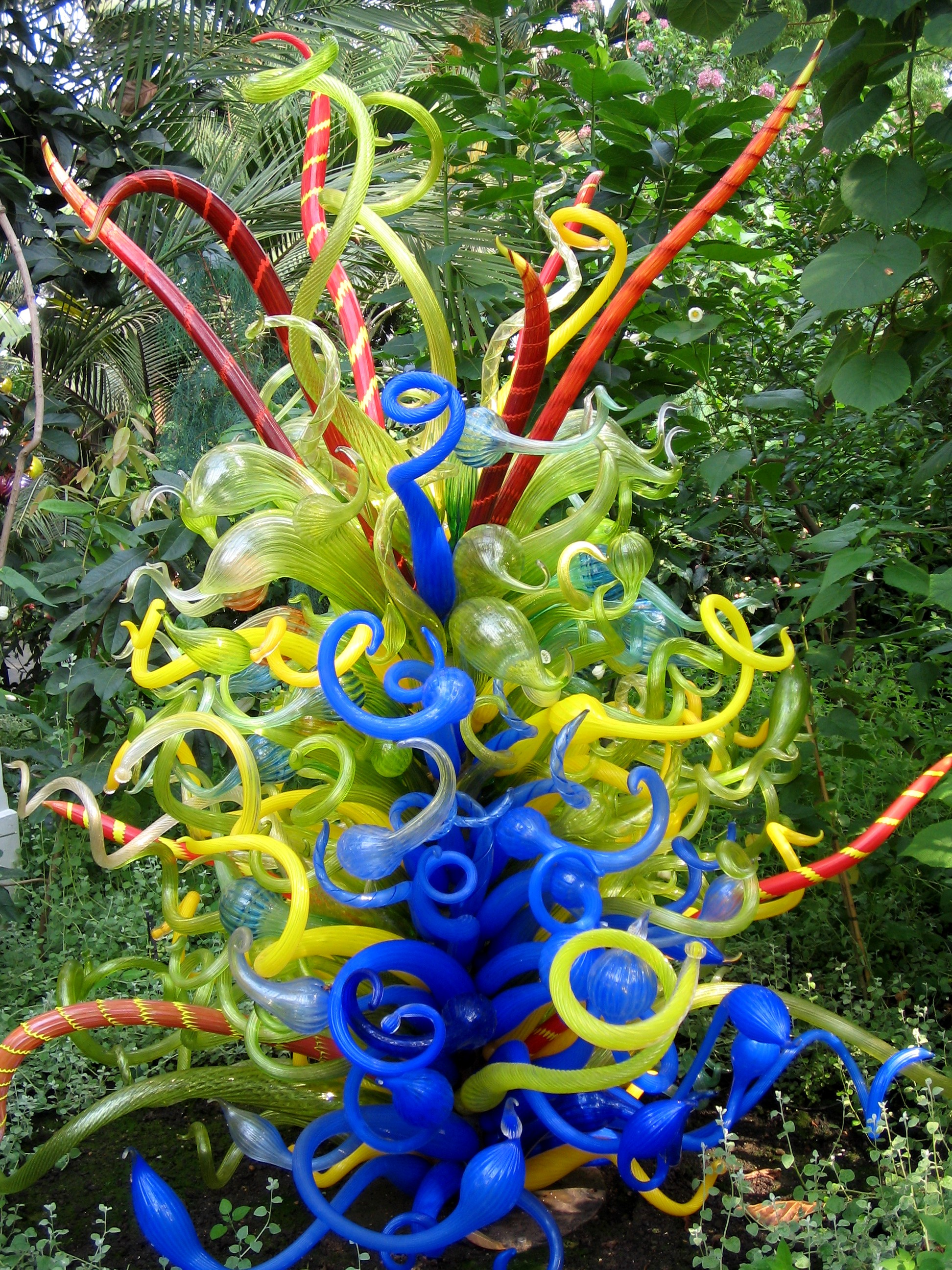 Glass sculpture by Dale Chihuly in London/U.K.